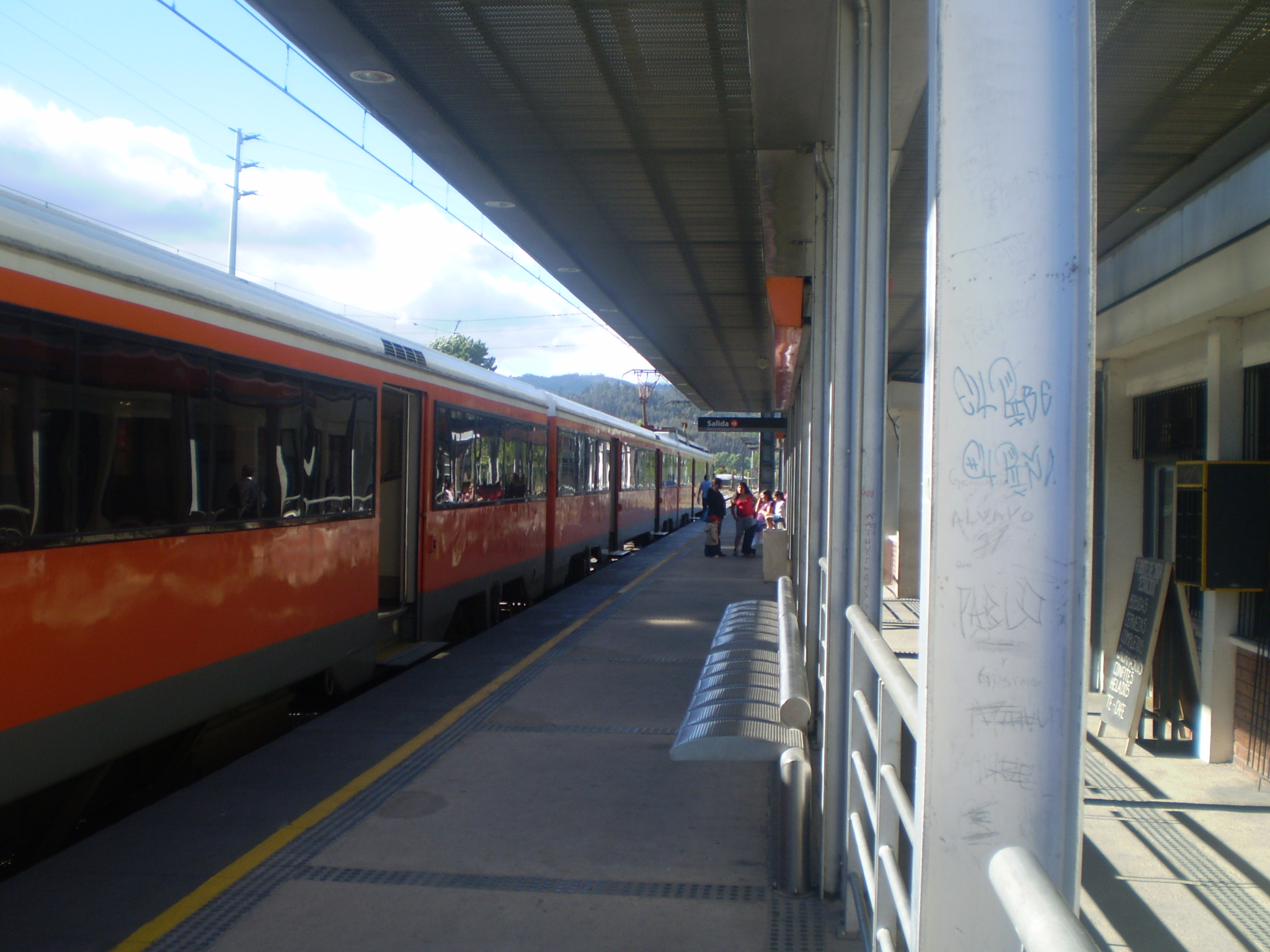 A unit of train UT 440 MC, on chilean station of Hualqui, Region del Biobio.